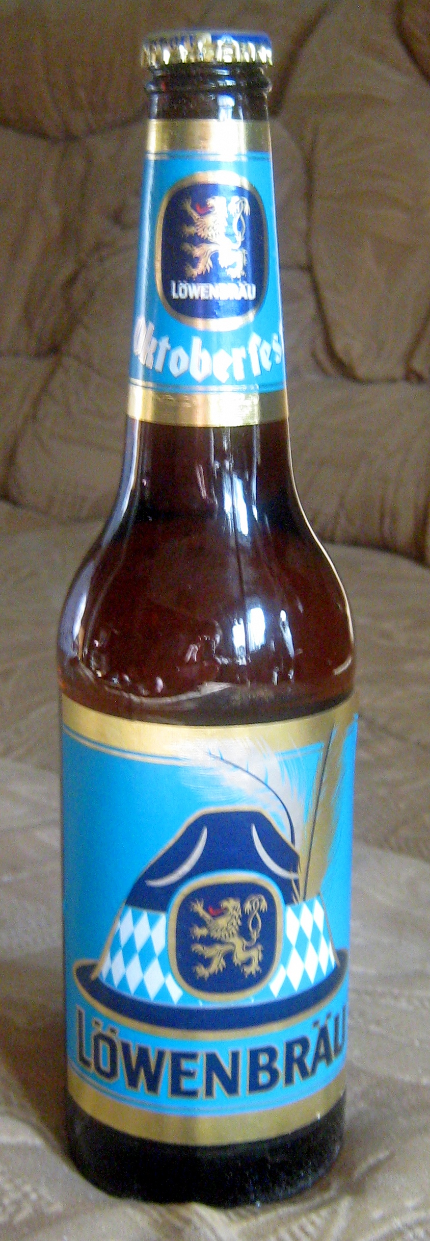 Löwenbräu Oktoberfestbier brewed in Omsk, Russia, 2017